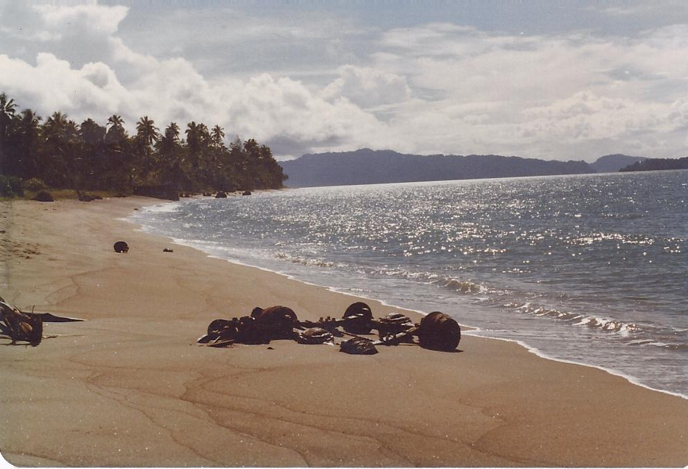 WWII remains on Buin NSP beach 1978